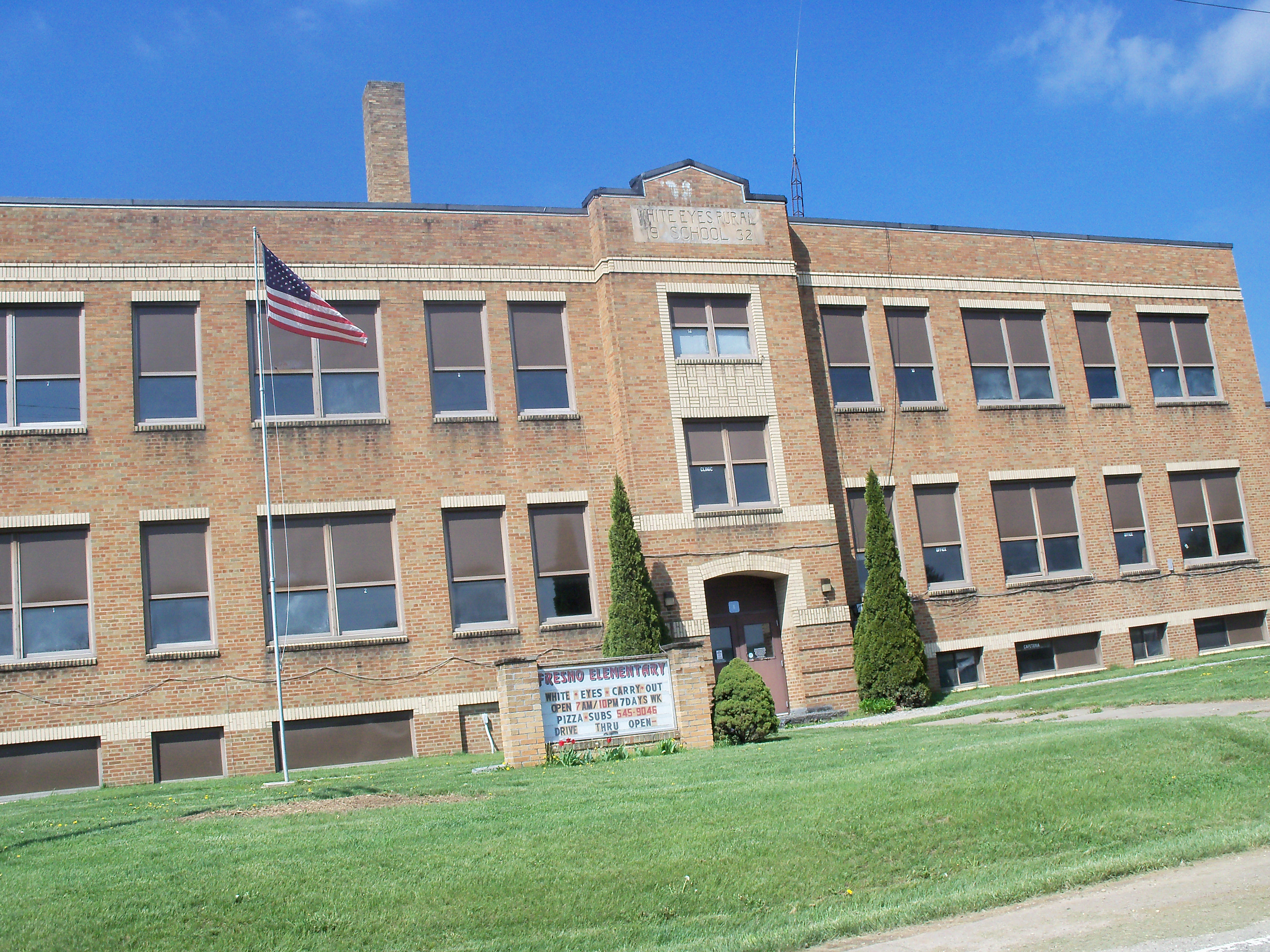 White Eyes Rural School, later Fresno Elementary, closed in 2008. located in Fresno, Ohio